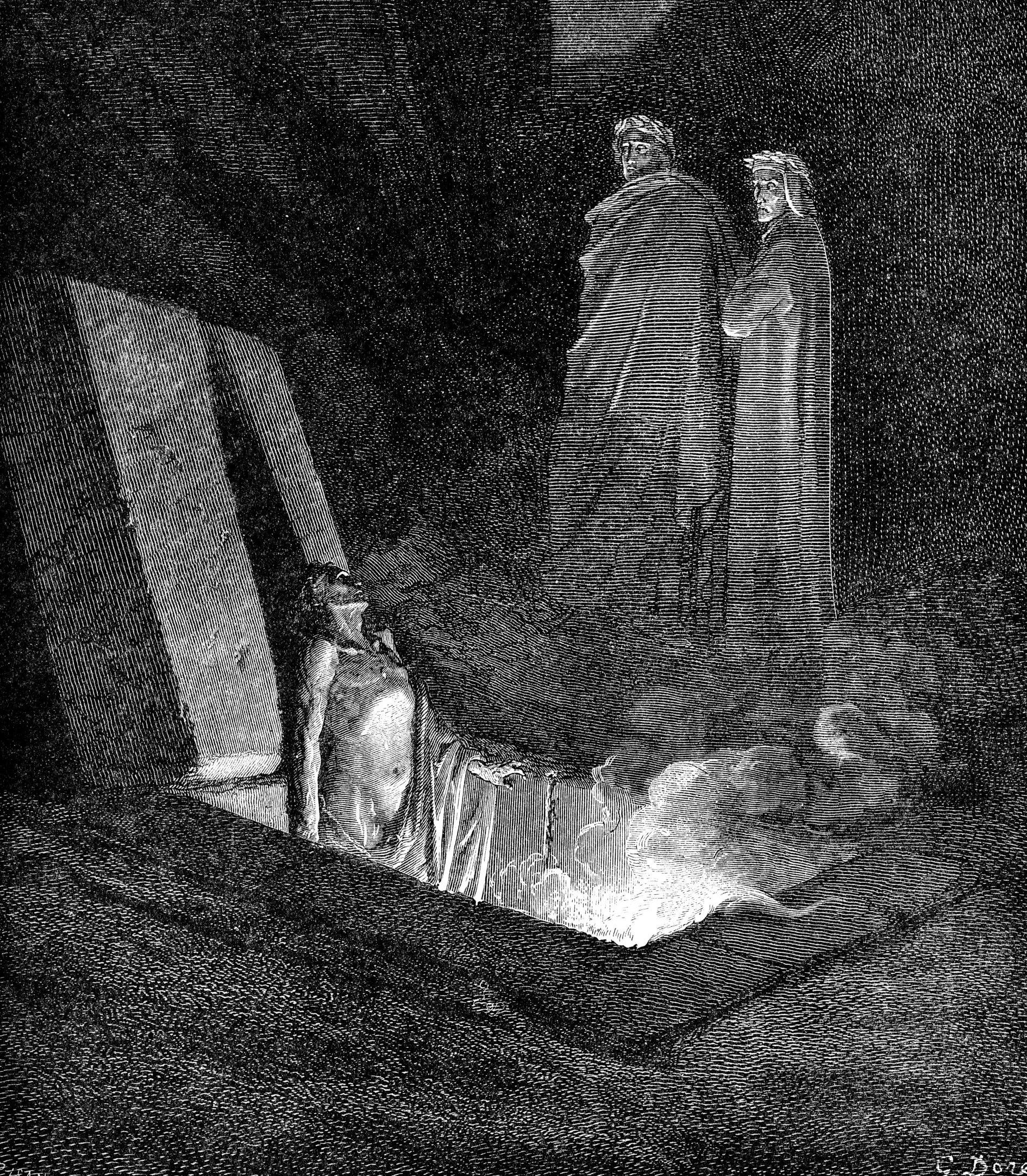 High resolution scan of engraving by Gustave Doré illustrating Canto X of Divine Comedy, Inferno, by Dante Alighieri. Caption: Farinata degli Uberti addresses Dante